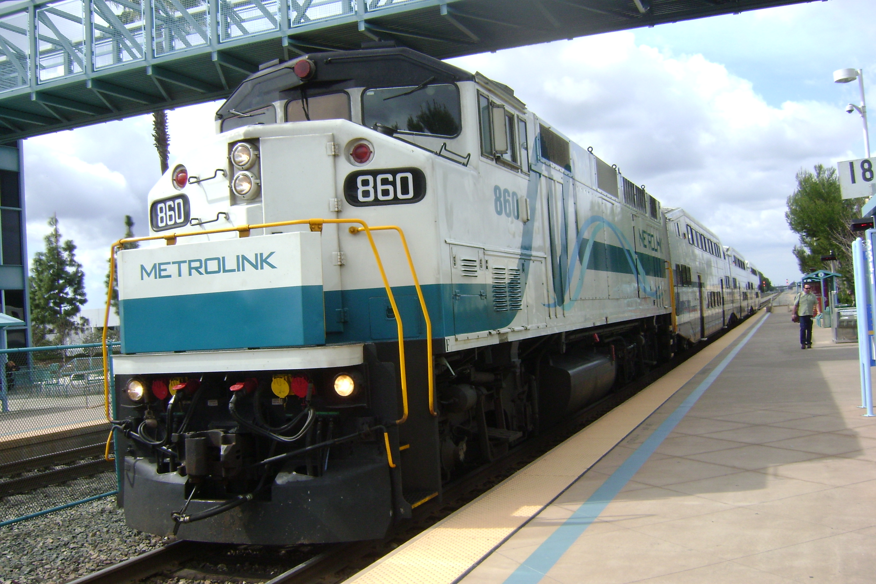 EMD F59PH in Irvine, CA.